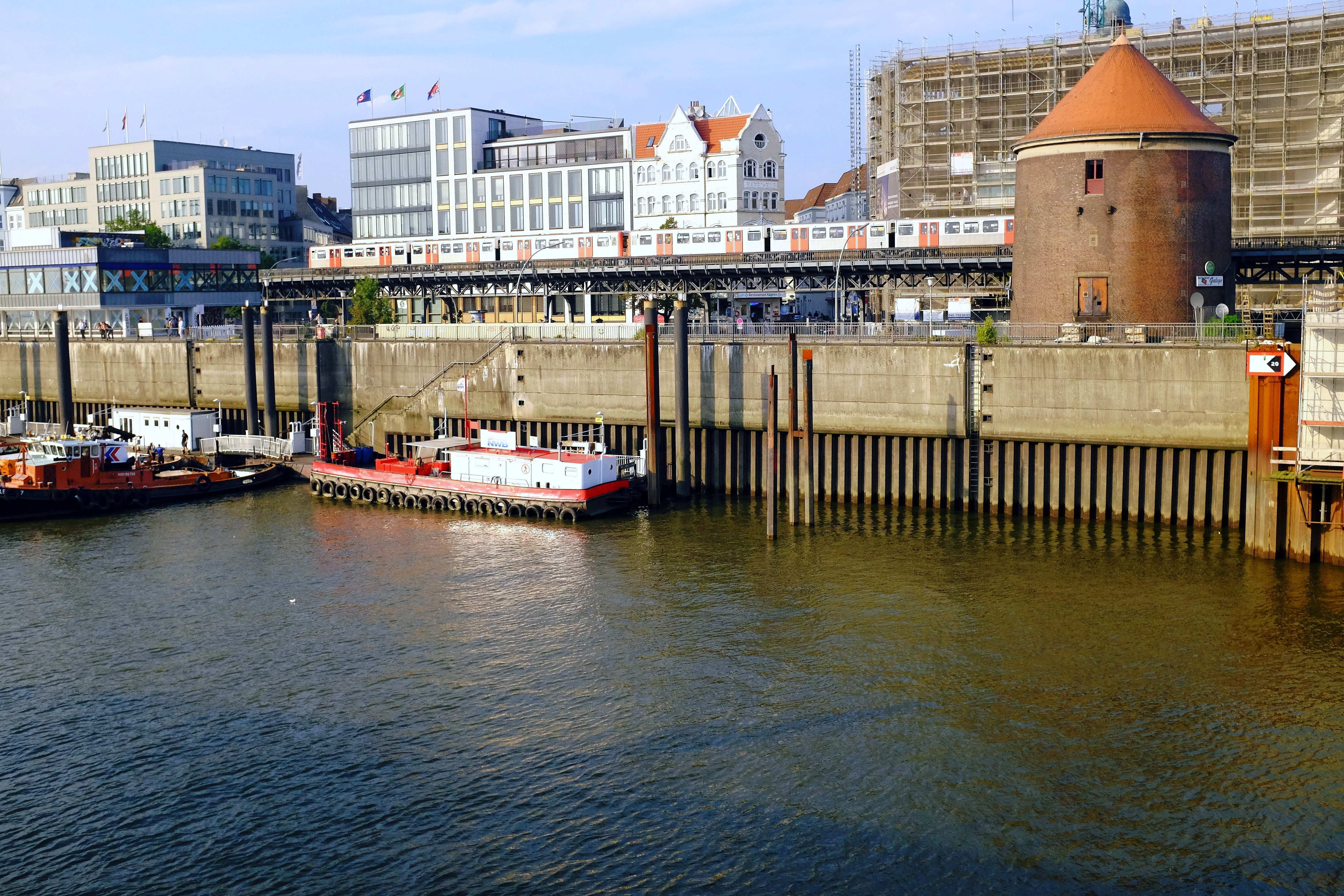 View from the Cap San Diego